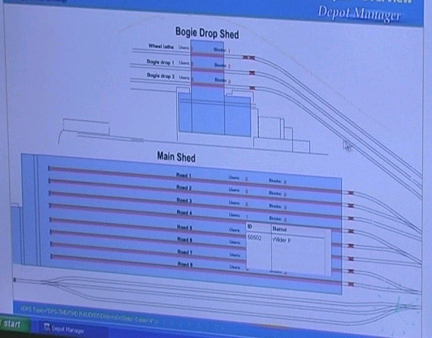 Depot Protection System - Graphical Monitoring Suite